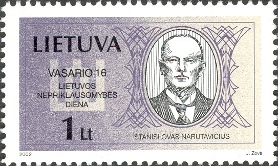 Stamps of Lithuania, 2002